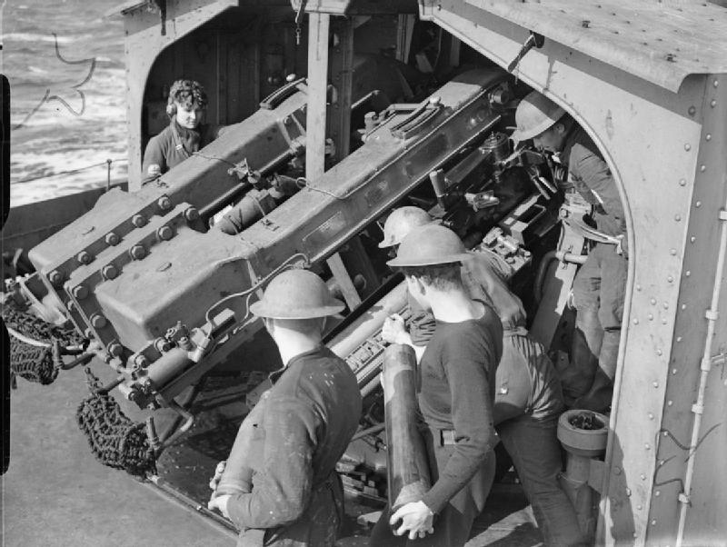 Gunners on British destroyer HMS Javelin loading twin QF 4.7 inch Mk XII guns. Gunner at bottom left holds a shell, gunner at bottom right holds a cartridge.